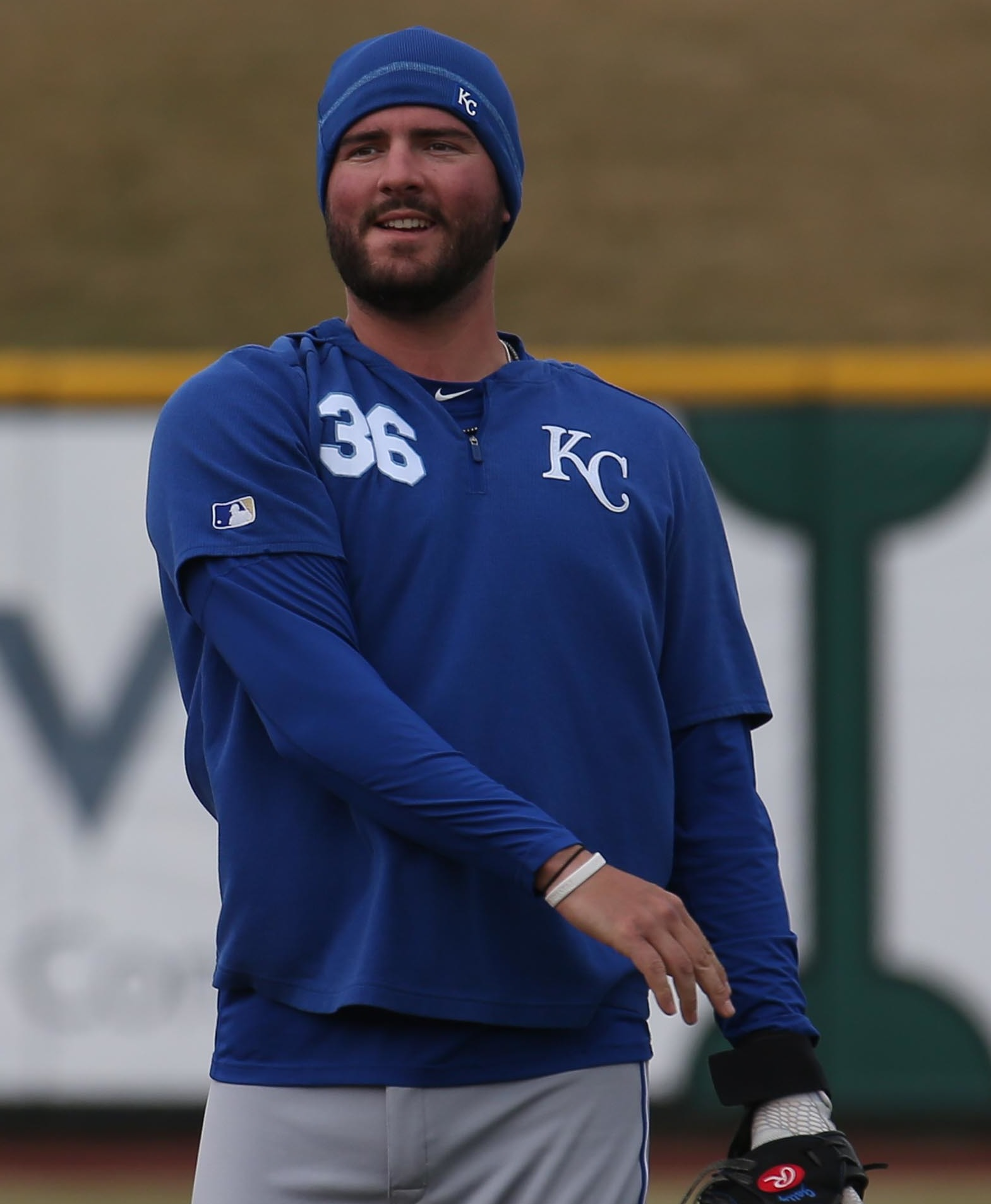 Cam Gallagher of the Kansas City Royals warms before an exhibition game in March 2019 at Werner Park in Omaha